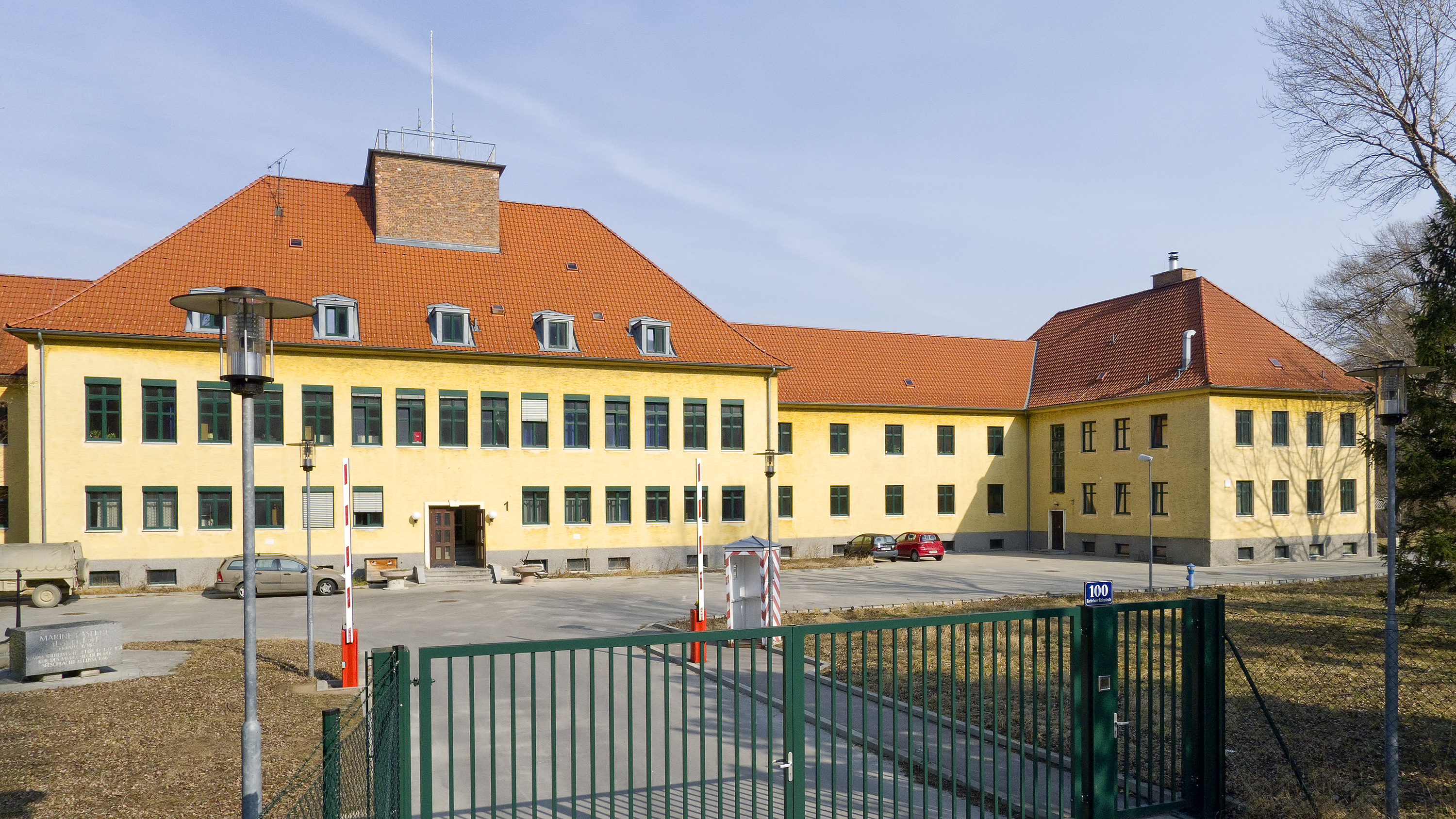 Barracks Marinekaserne in Vienna Döbling